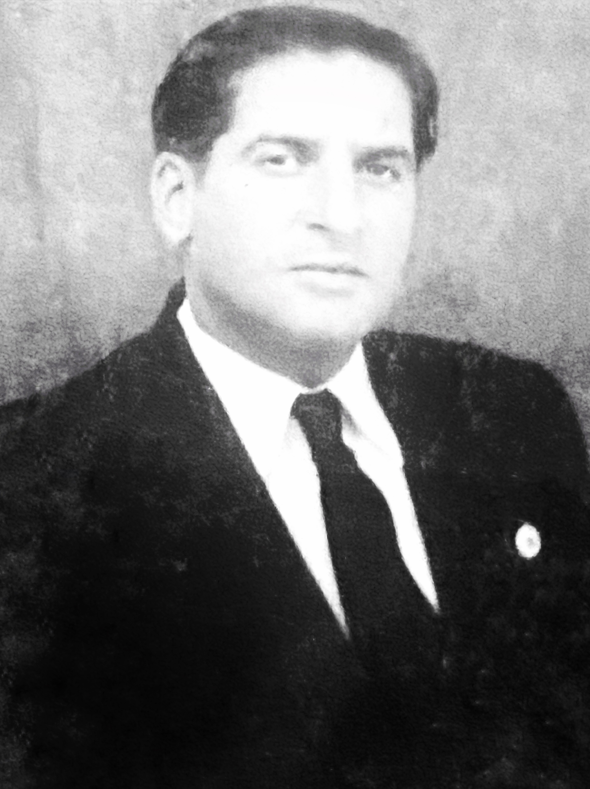 A portrait photo of Cuban judge and politician Pedro Pablo Cazañas y García, circa 1938.